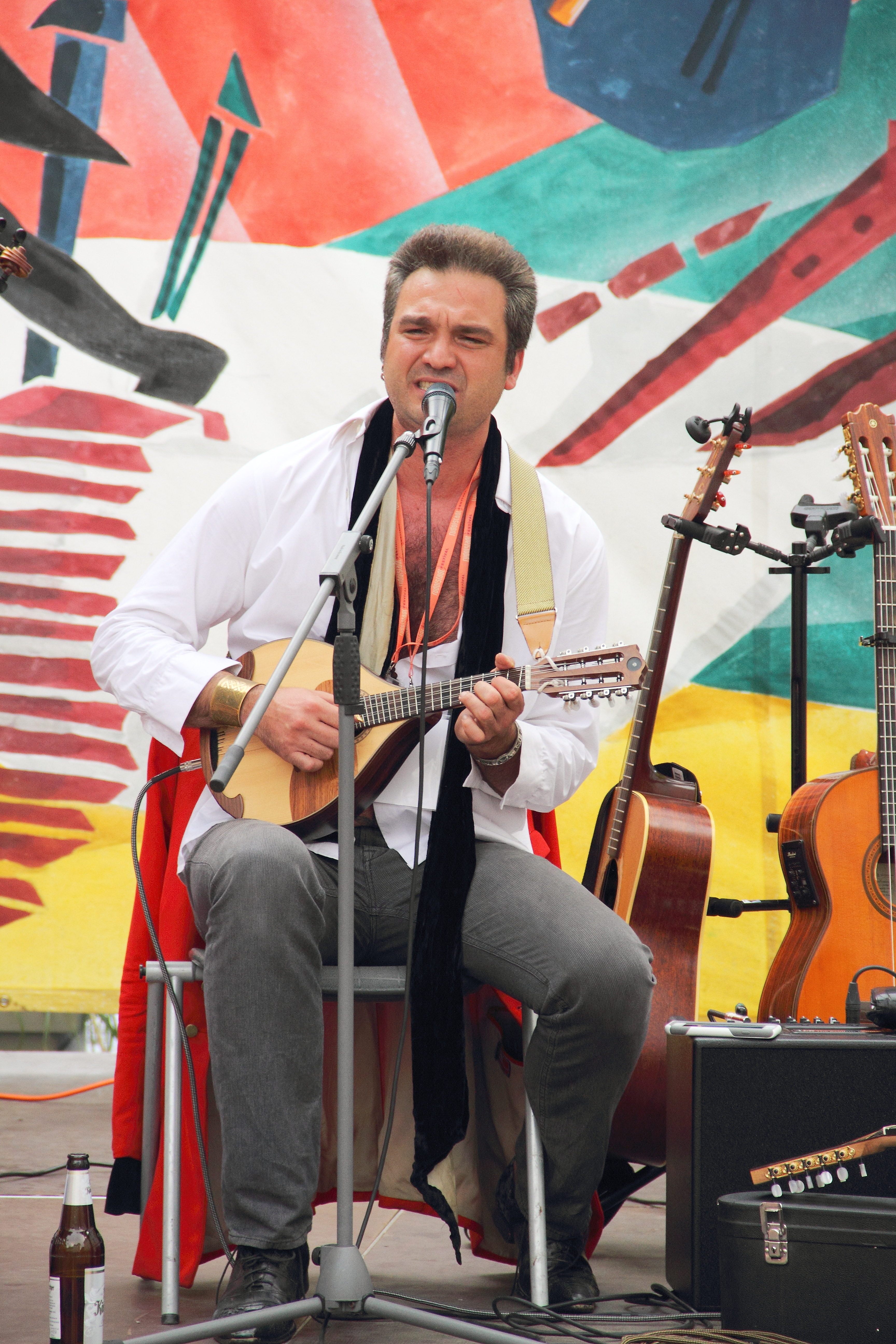 Street musician Prinz Chaos II. at Rudolstadt-Festival 2017.